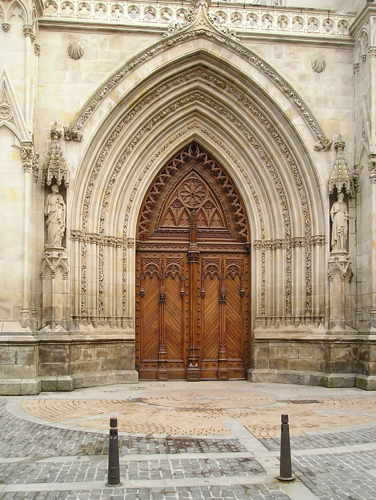 Bilbao Cathedral Spring 2004